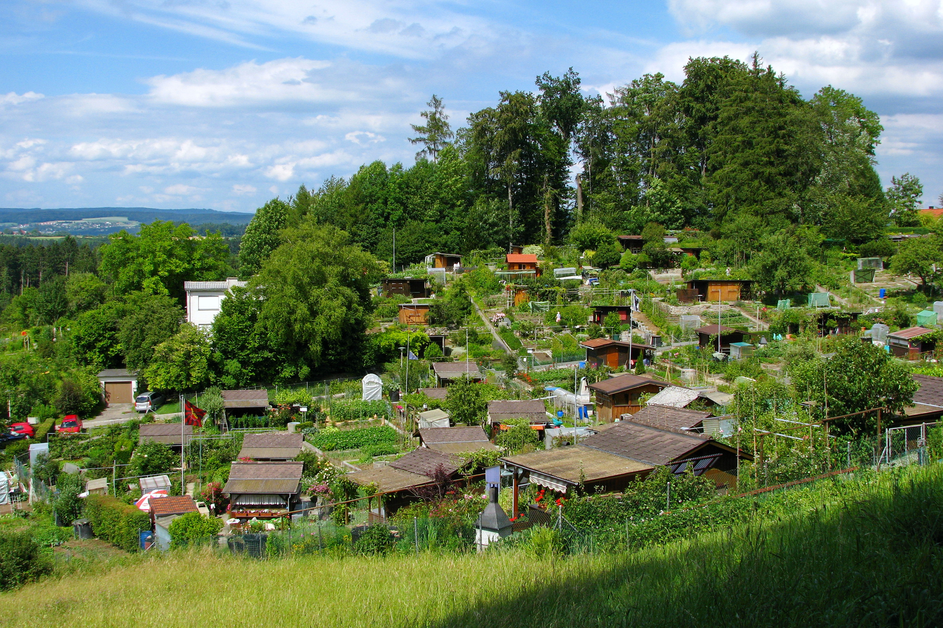 Zürich-Affoltern : Schrebergarten on northern Käferberg-Waidberg hill.